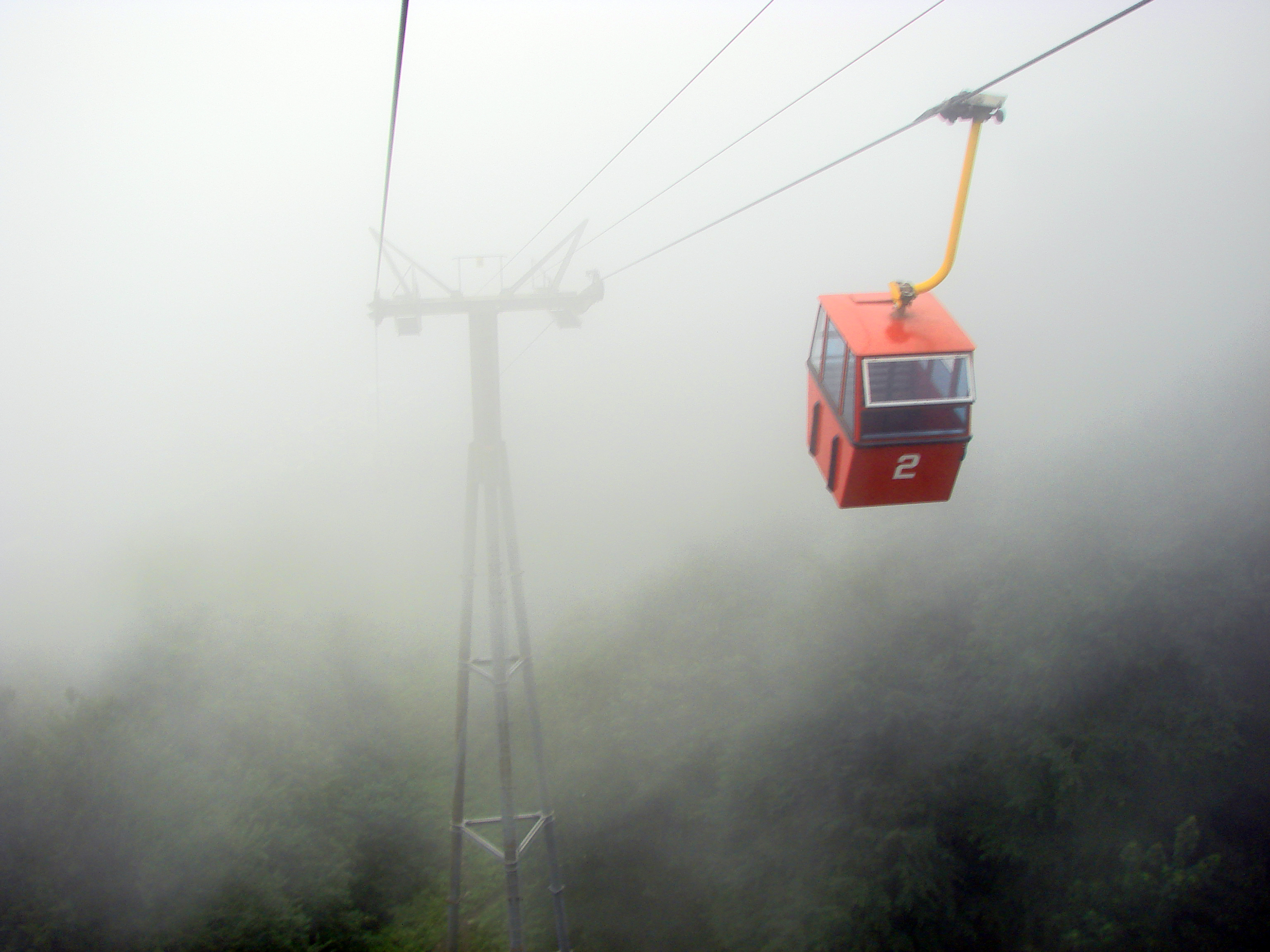 Shahrak-e Namak Abrud is a touristic village and has an aerial tramway which starts at the sea level near the shores of the Caspian Sea and ends on the top of the Alborz heights crossing dense forest area of northern Iran. There are numerous villa cities around it which form a vacation region for the people of Tehran.